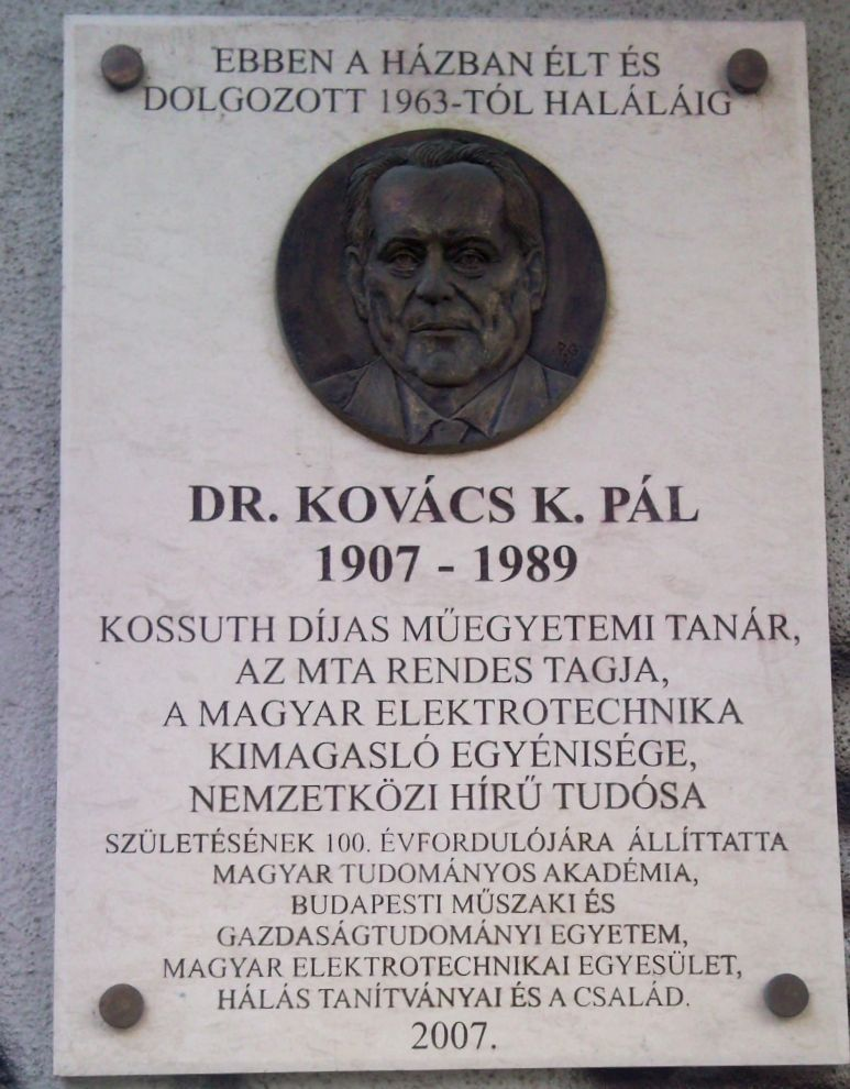 Pál Kovács Károly commemorative plaque with relief in Budapest District I, Bem Quay No 22